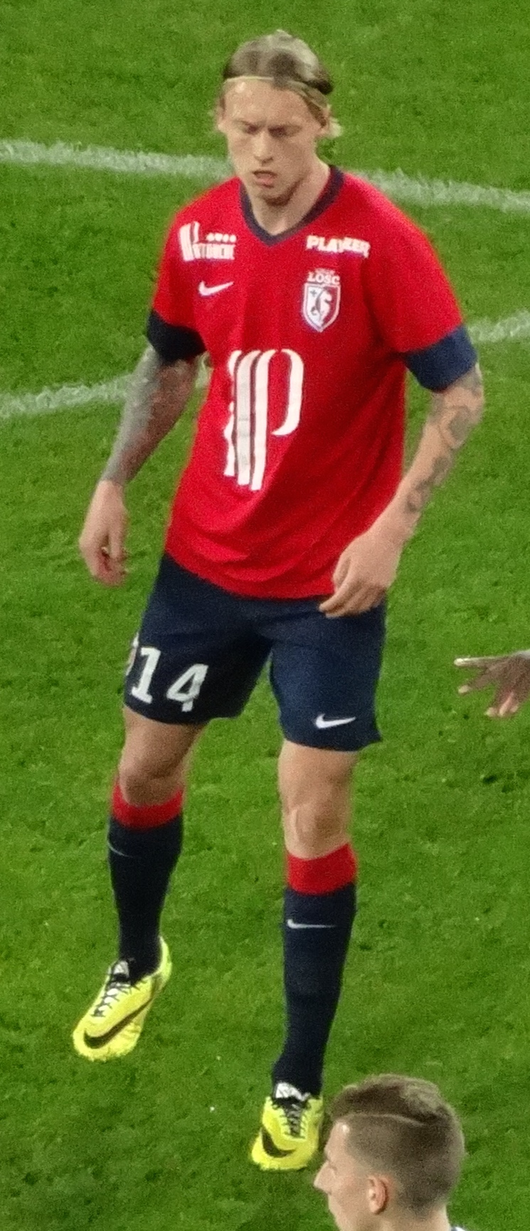 Simon Kjær (LOSC Lille)